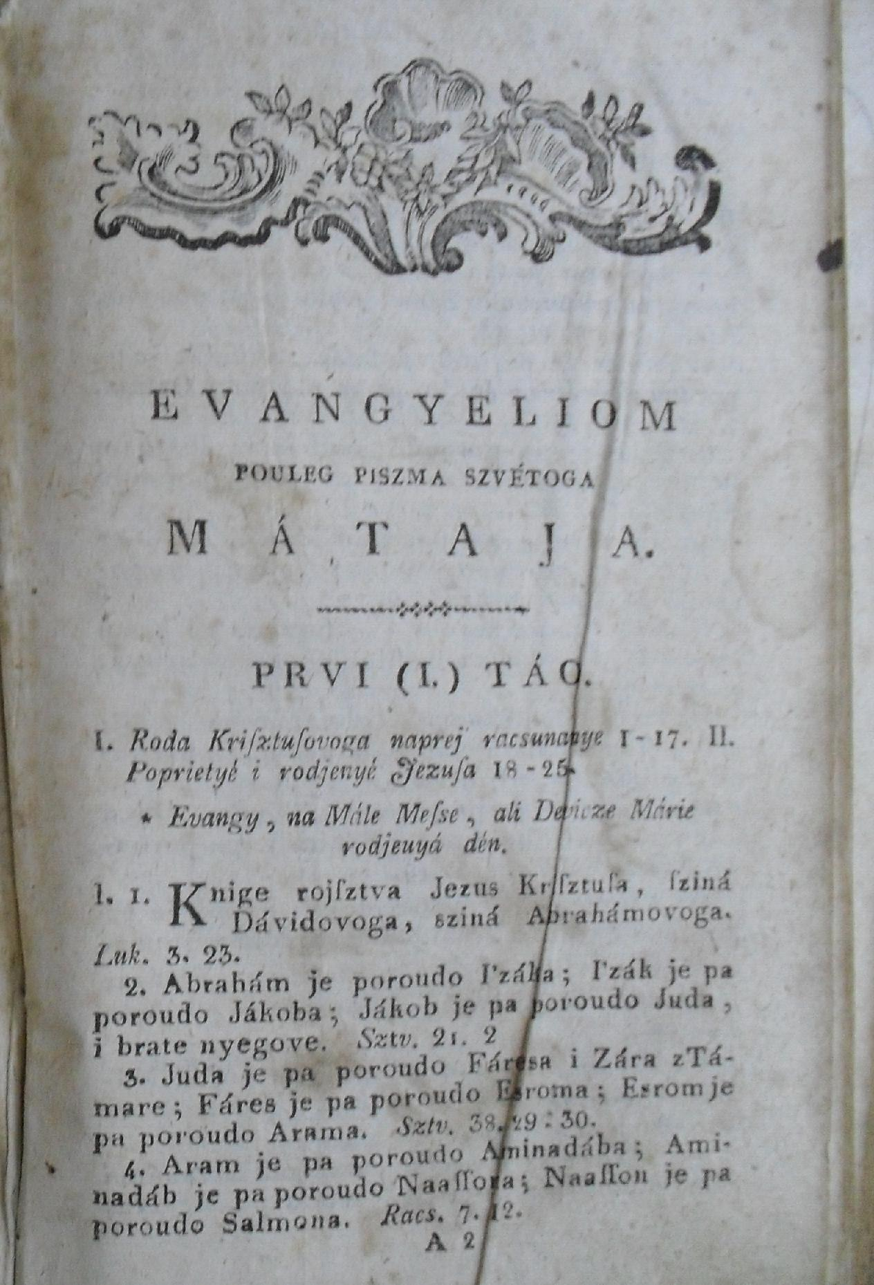 The first page of the Nouvi Zákon (1817)